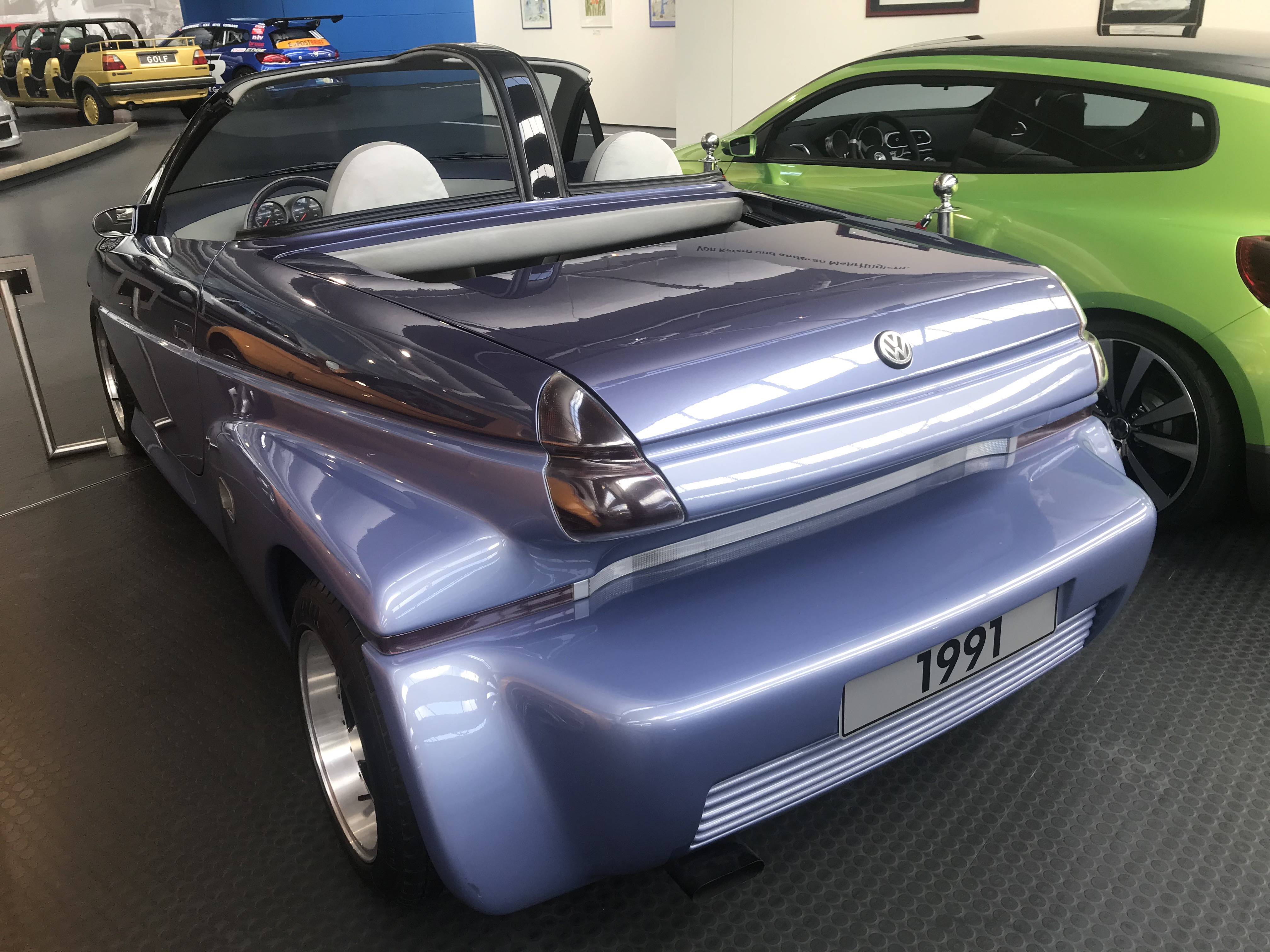 VW Vario 2 Back